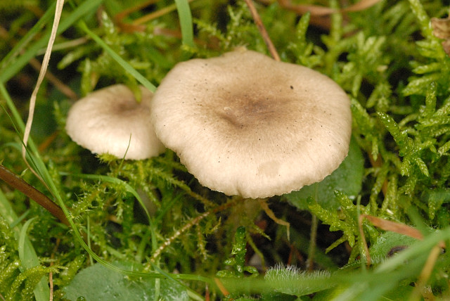 Maybe Hygrophorus pustulatus from Commanster, Belgium. The determination of the species shown in this picture has been verified.